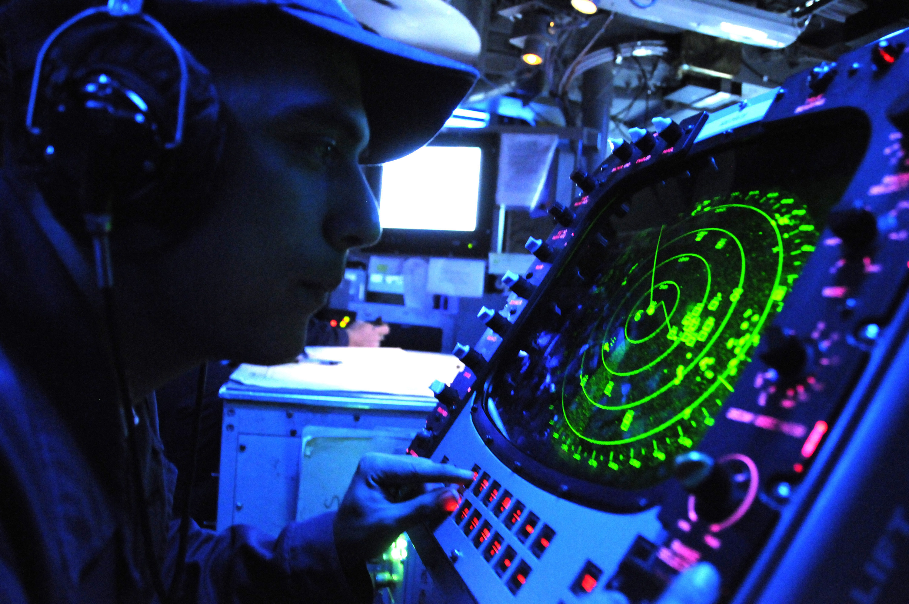 YELLOW SEA (Nov. 23, 2009) Mineman Seaman Recruit Chilo Espinoza works at the radar station in the command information center of the mine counter-measures ship USS Defender (MCM 2). Defender is participating in exercise Clear Horizon, an annual exercise conducted with the Republic of Korea Navy, that is one of the largest, international, mine counter-measures exercises in the world. (U.S. Navy photo by Mass Communication Specialist 1st Class Richard Doolin/Released)